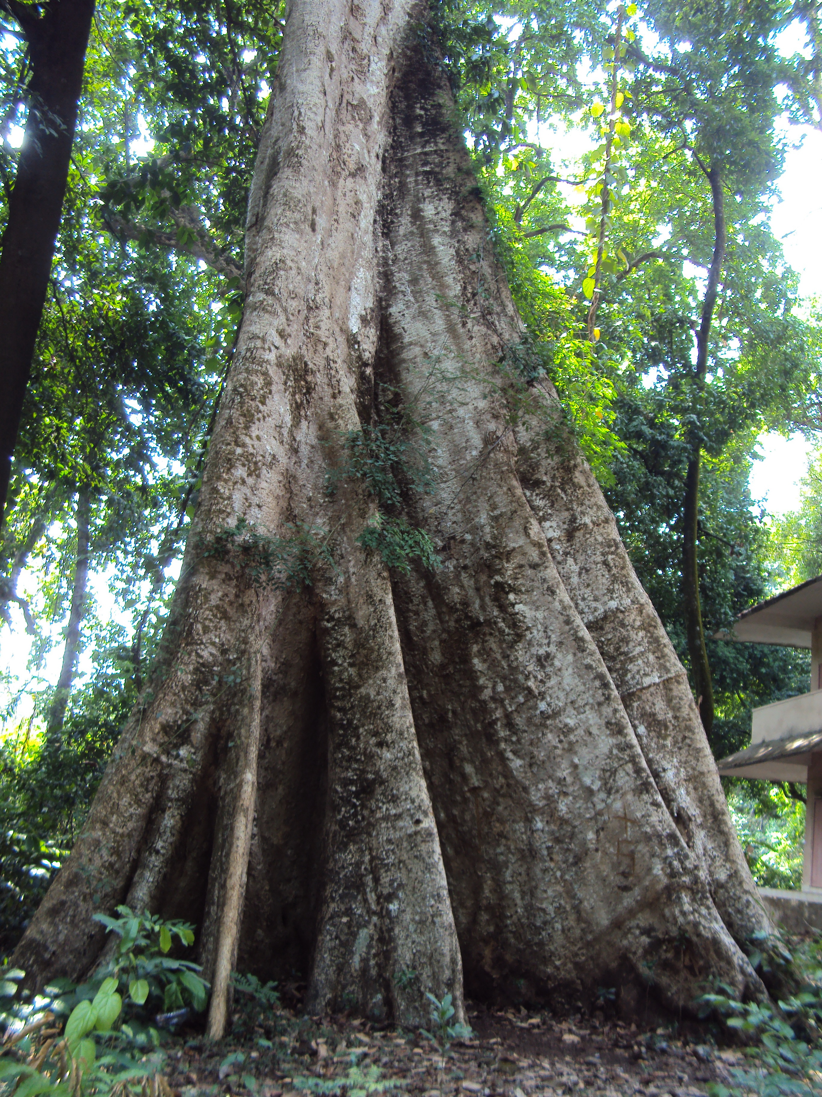 Tetrameles nudiflora